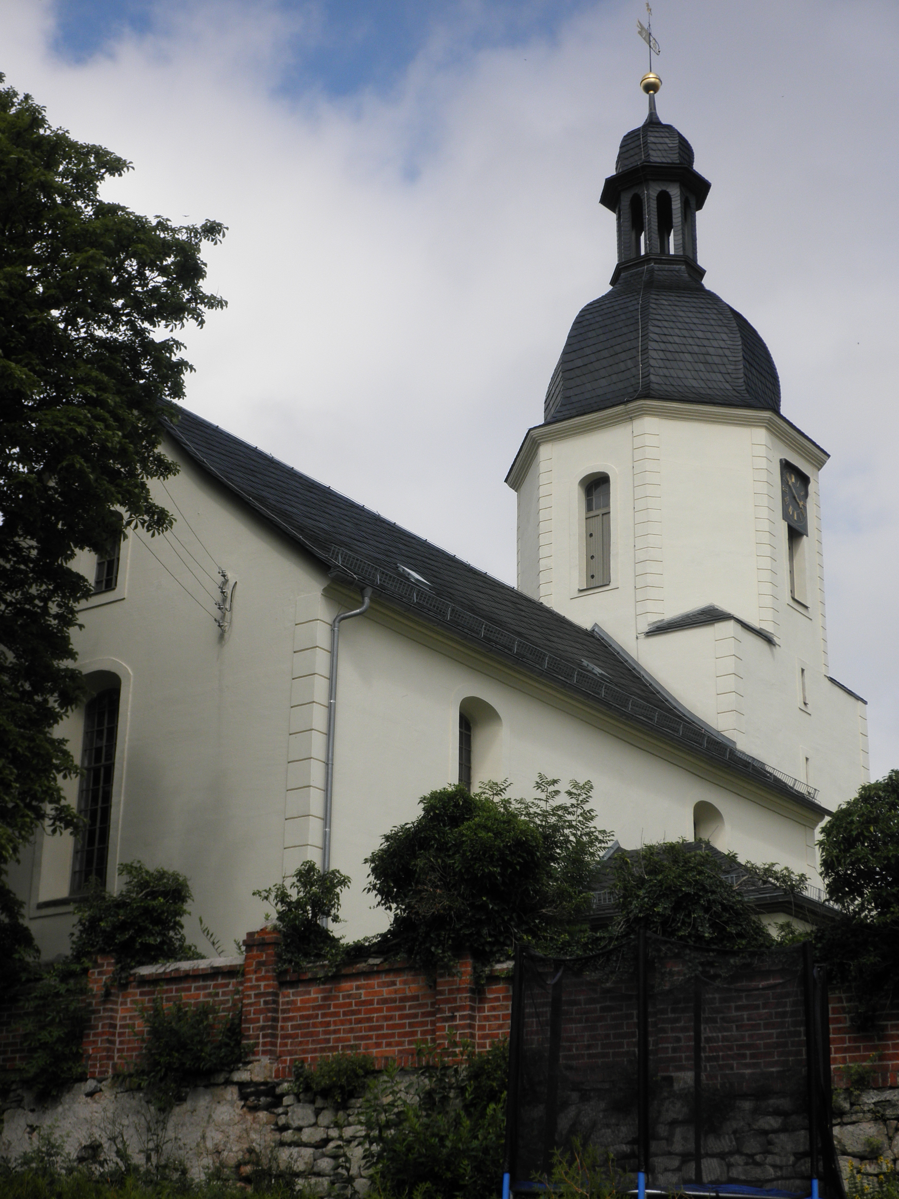 Church in Kopitzsch (Miesitz) in Thuringia